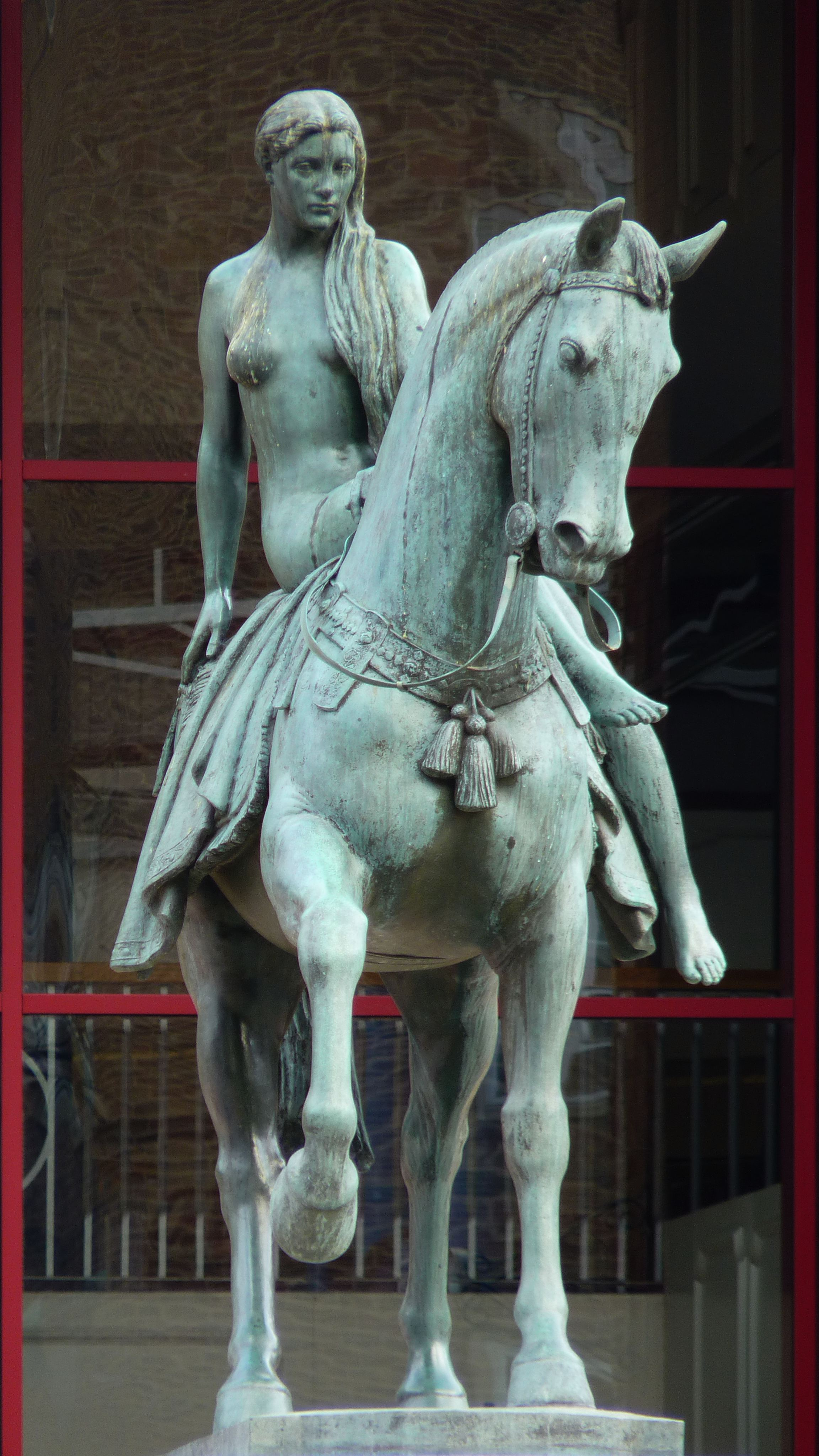 Lady Godiva statue at Broadgate, Coventry in October 2011.